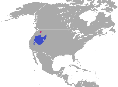 Pygmy Rabbit (Brachylagus idahoensis) range (blue - native, pink - reintroduced). National borders added.